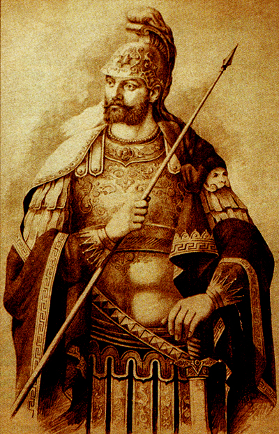 Constantine XI Palaiologos